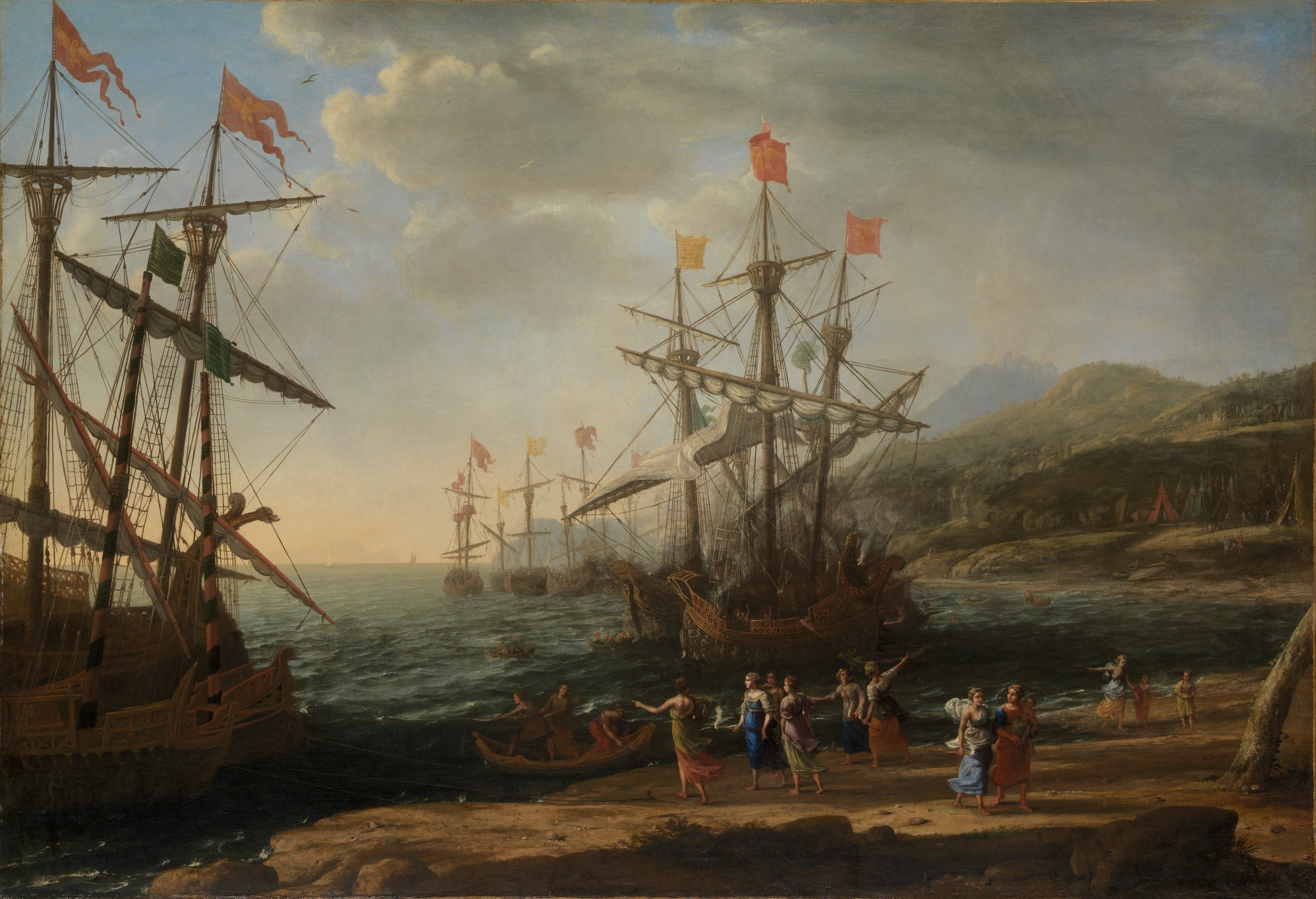 The Trojan women set fire to their ships in an effort to end years of wandering after the fall of Troy. The clouds and rain in the distance presage the storm sent by Jupiter at Aeneas's request to quench the blaze. Claude noted in his "Liber Veritatis" that the picture was painted in Rome for Girolamo Farnese. The learned prelate, who returned to the city in 1643, must have chosen this episode from Virgil's "Aeneid" (V:604–710) to allude to his years of itinerant service as papal nuncio combating Calvinism in remote Alpine cantons of the Swiss Confederation.